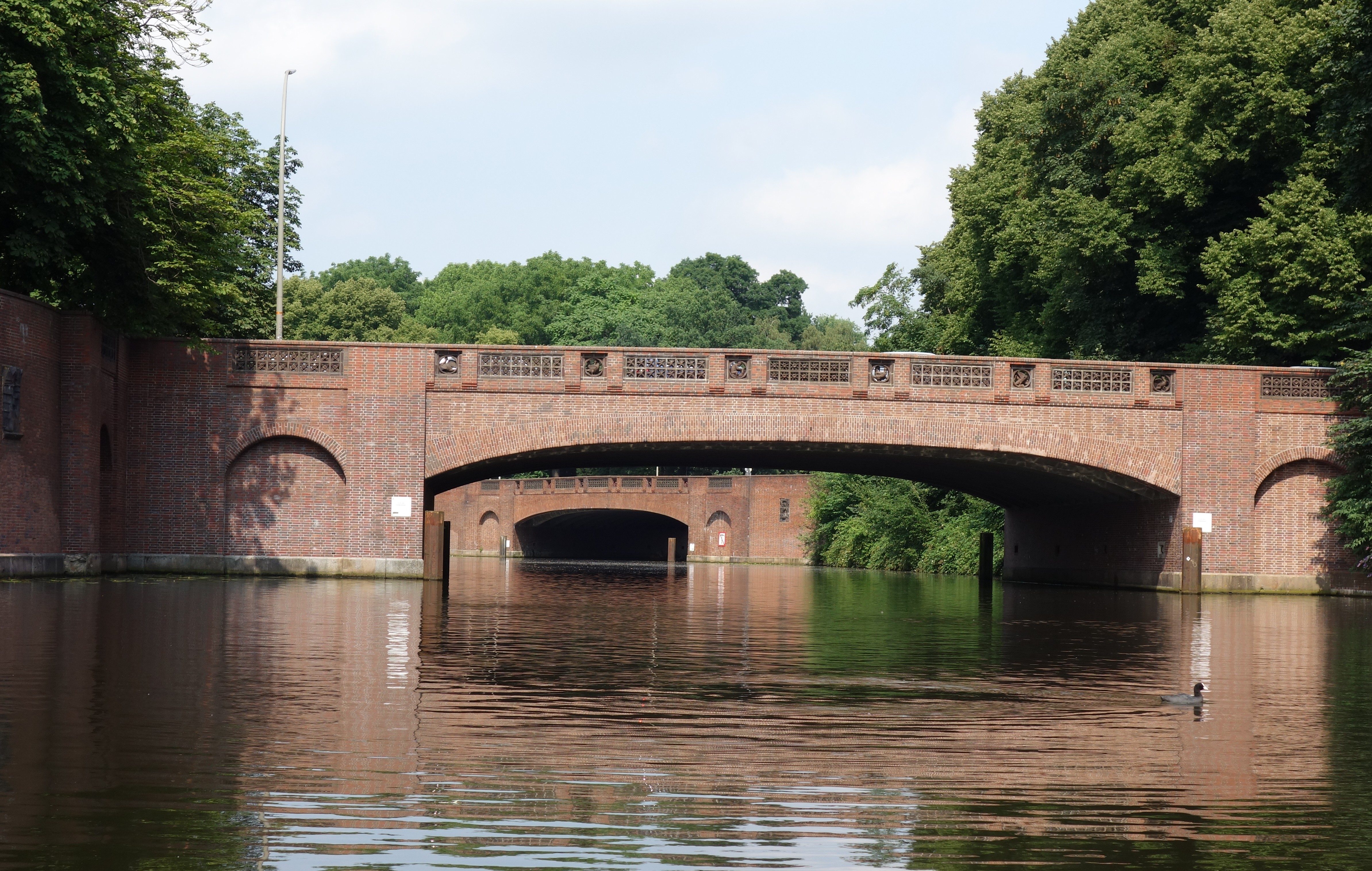 Bridge near the Stadtpark in Hamburg, Germany